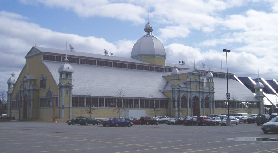 Taken by SimonP in April 2005